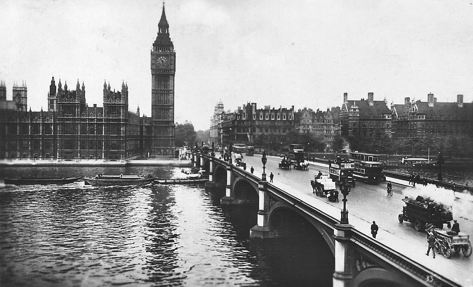 Westminster Bridge in 1928 Original caption: “Westminster Bridge extends from the Houses of Parliament on the North side of the River to St. Thomas's Hospital on the Surrey side, and was built in 1869 at an approximate cost of £1,000,000.”